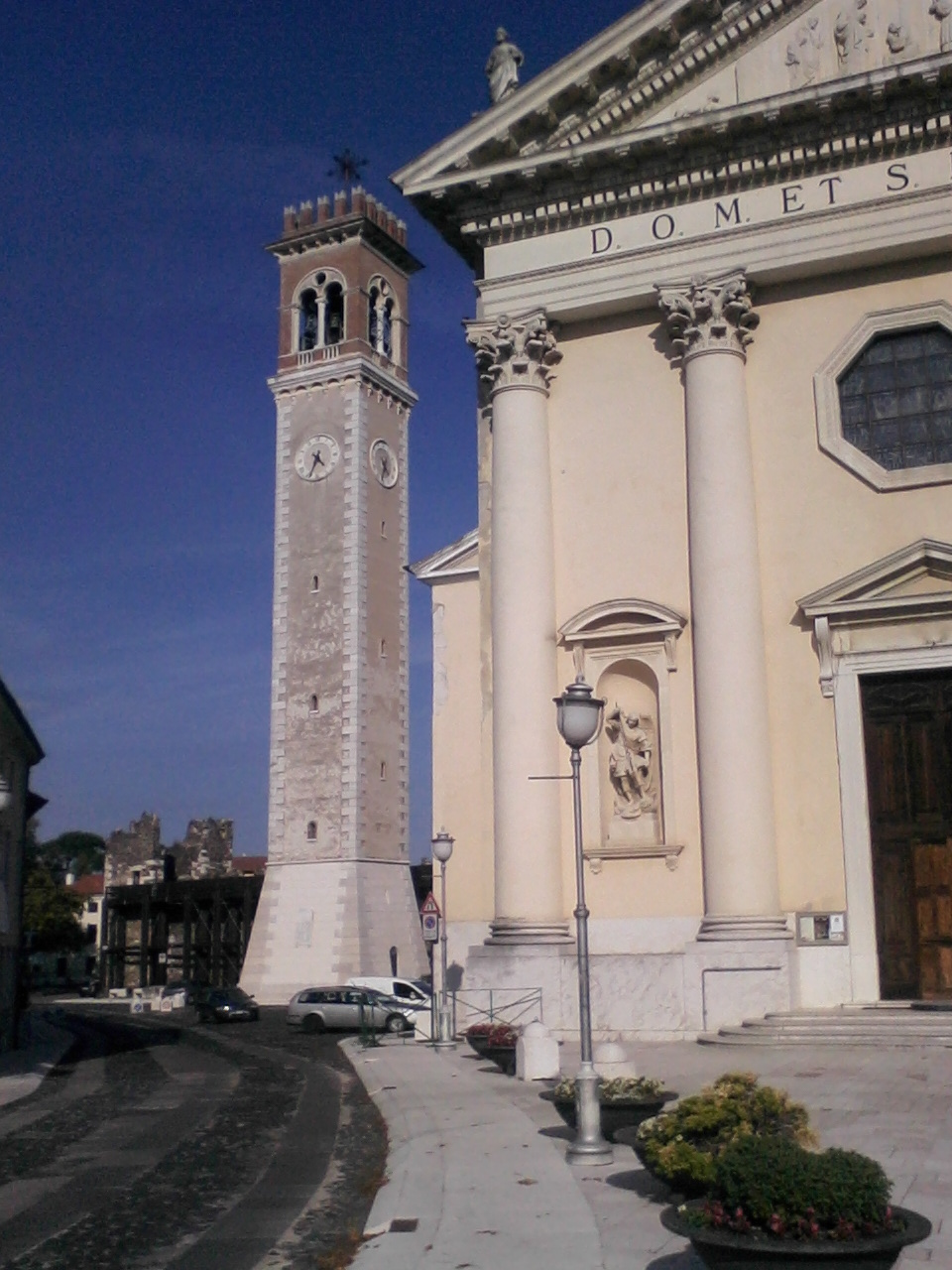 Panorama di Arzignano (Vi)